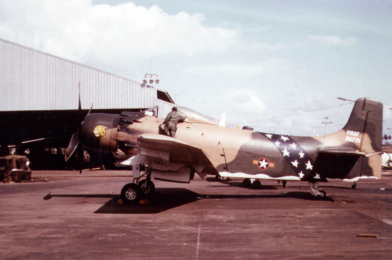 A Vietnamese Air Force Douglas A-1H Skyraider (U.S. Navy BuNo 139771).